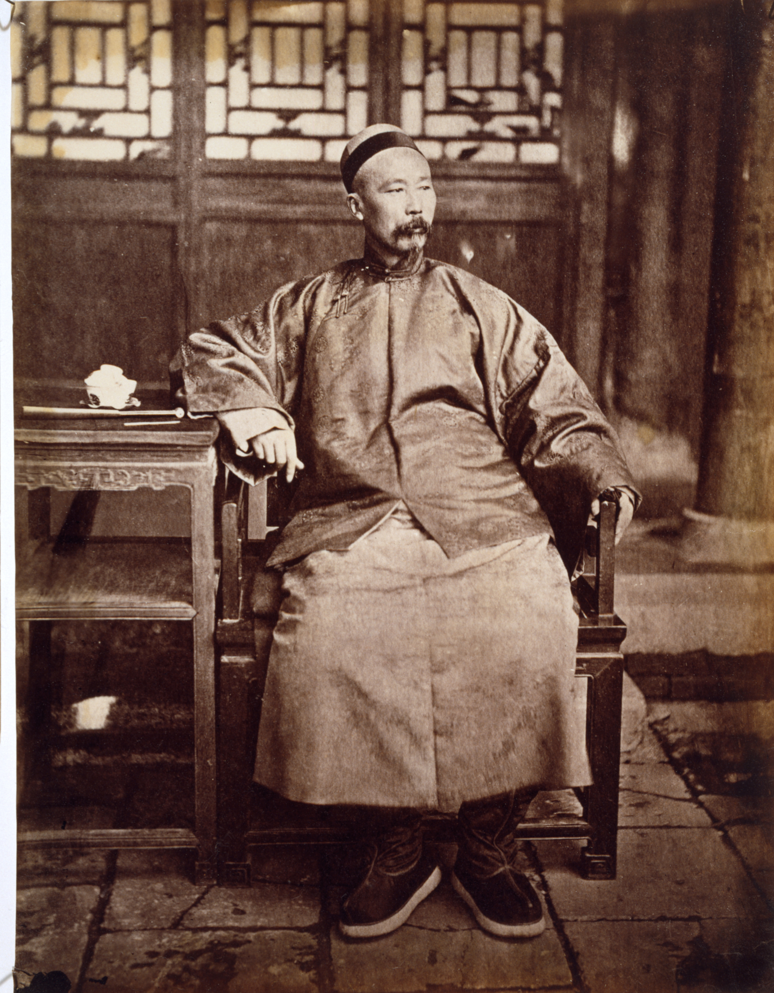 Lorenzo F. Fisler (American, 1841-1918) Portrait of Li Hongzhang 1871 Albumen print Frederick Townsend Ward Memorial Fund. PH22.65 Peabody Essex Museum